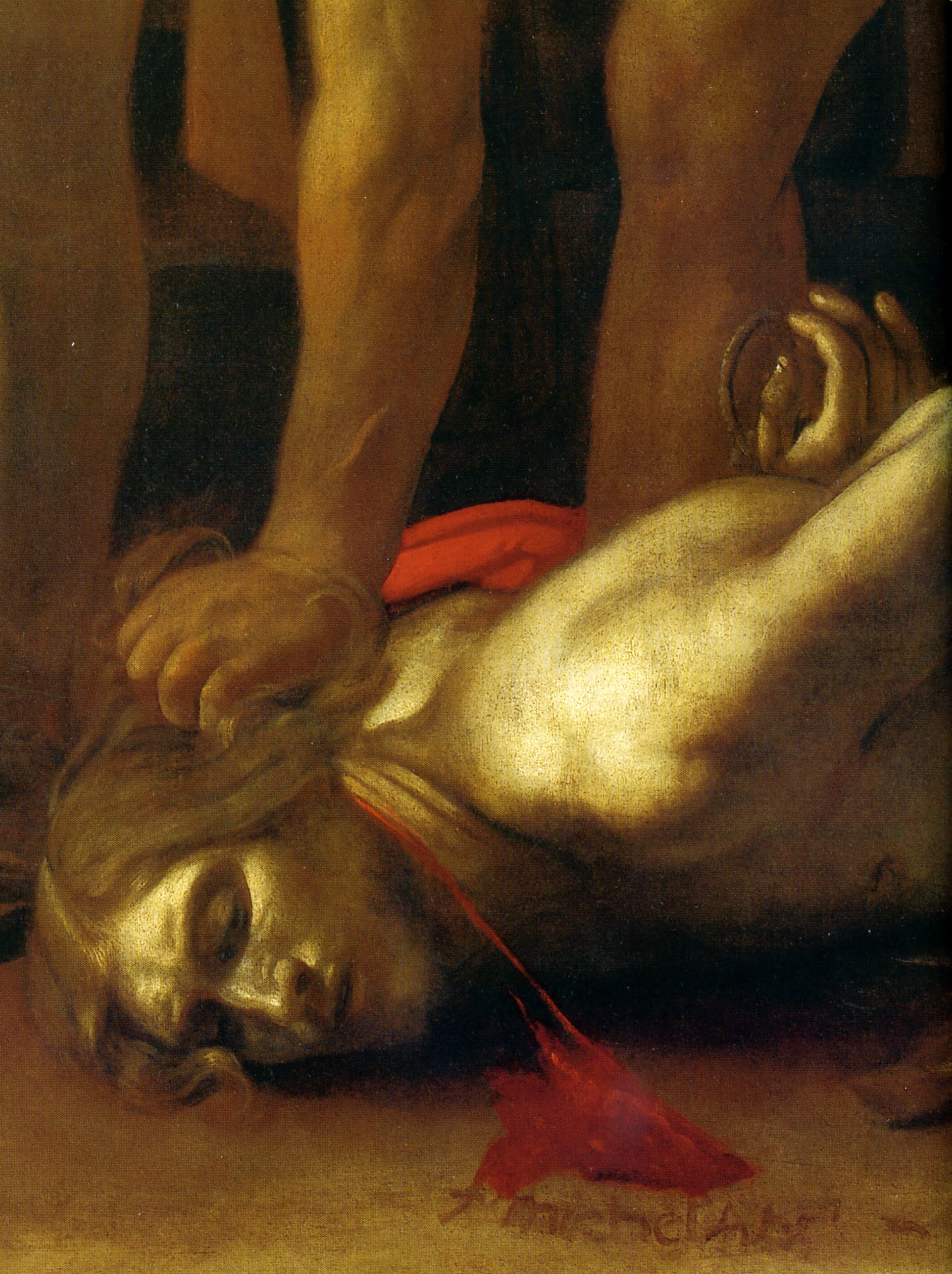 Magnification, showing Caravaggio's signature in the blood from St. John the Baptist's neck.